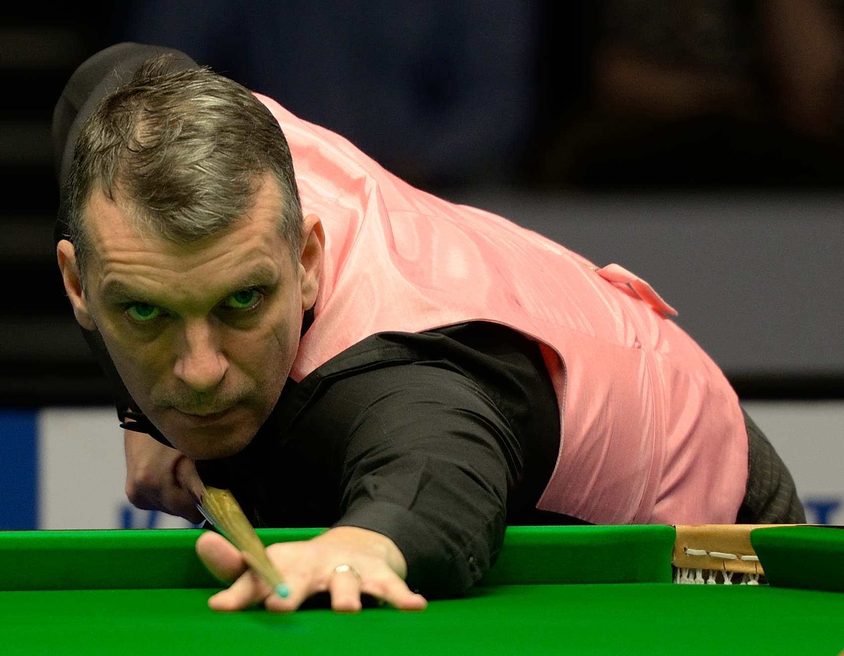 Picture taken in Berlin during the Snooker German Masters in 2015. Mark Davis.